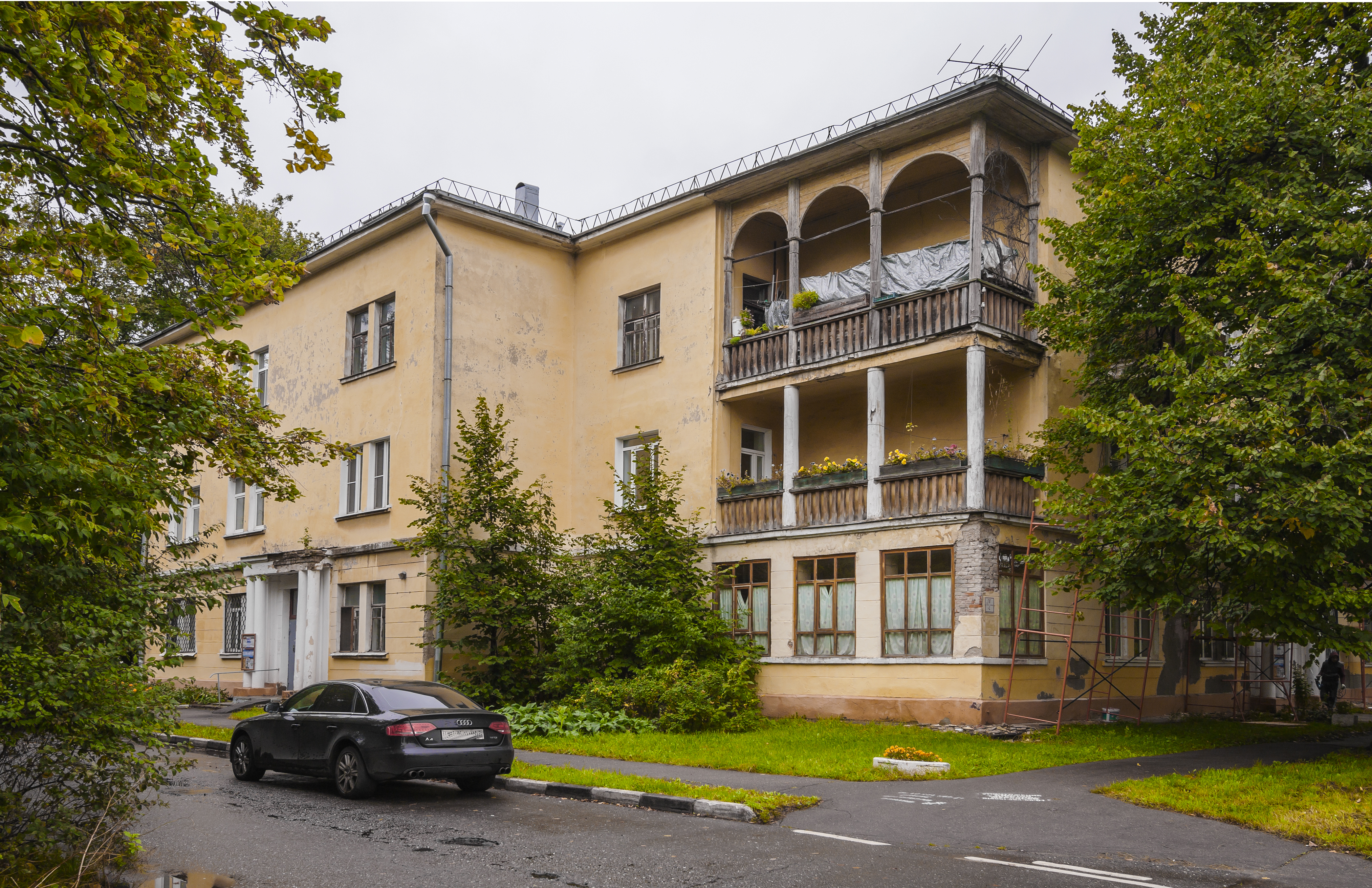 Residential village - houses (eight): East, Eastern District, Moscow